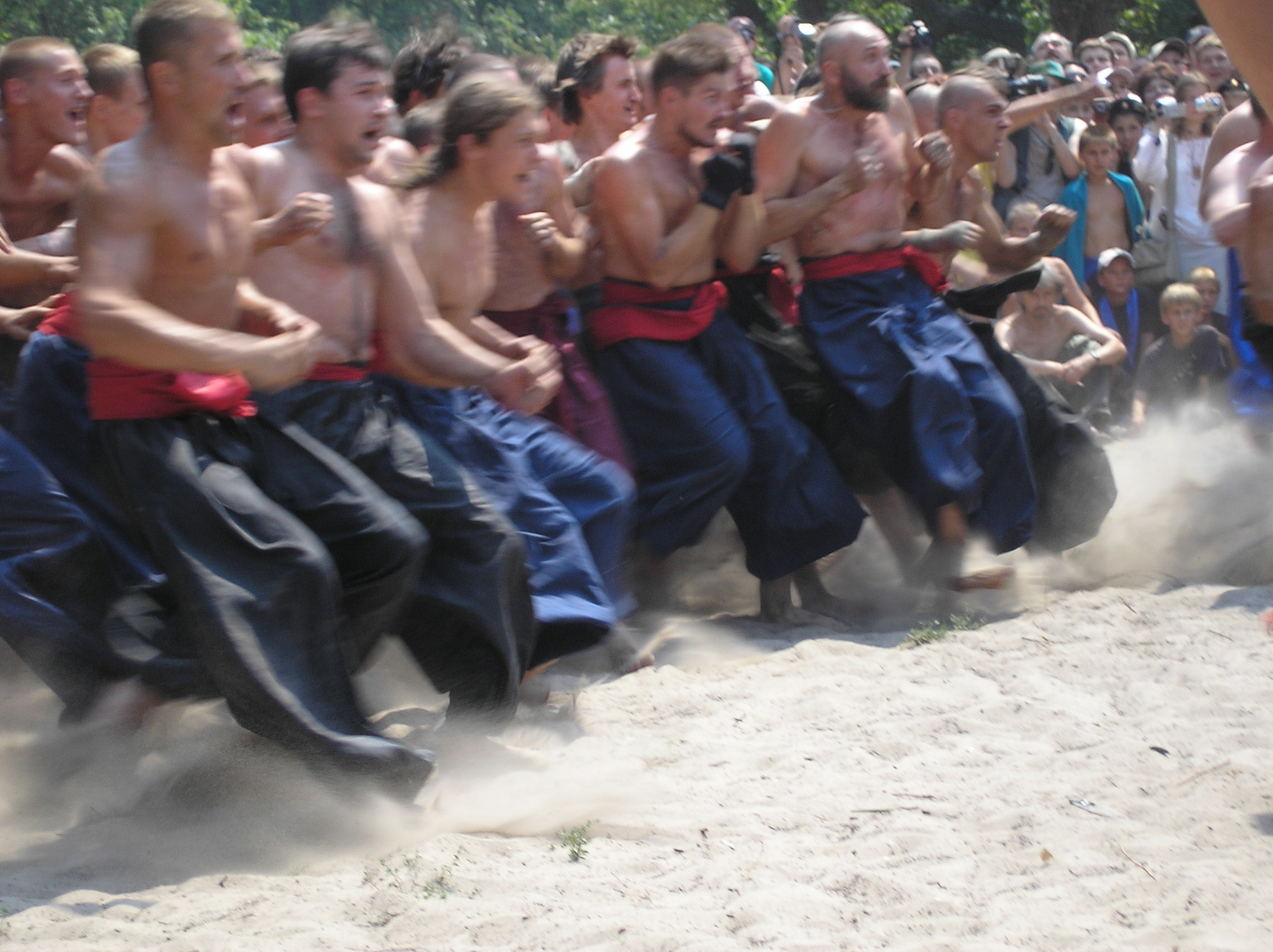 Zaporizhya. Island Khortytsya. Cossacks festival. 2005 Summer